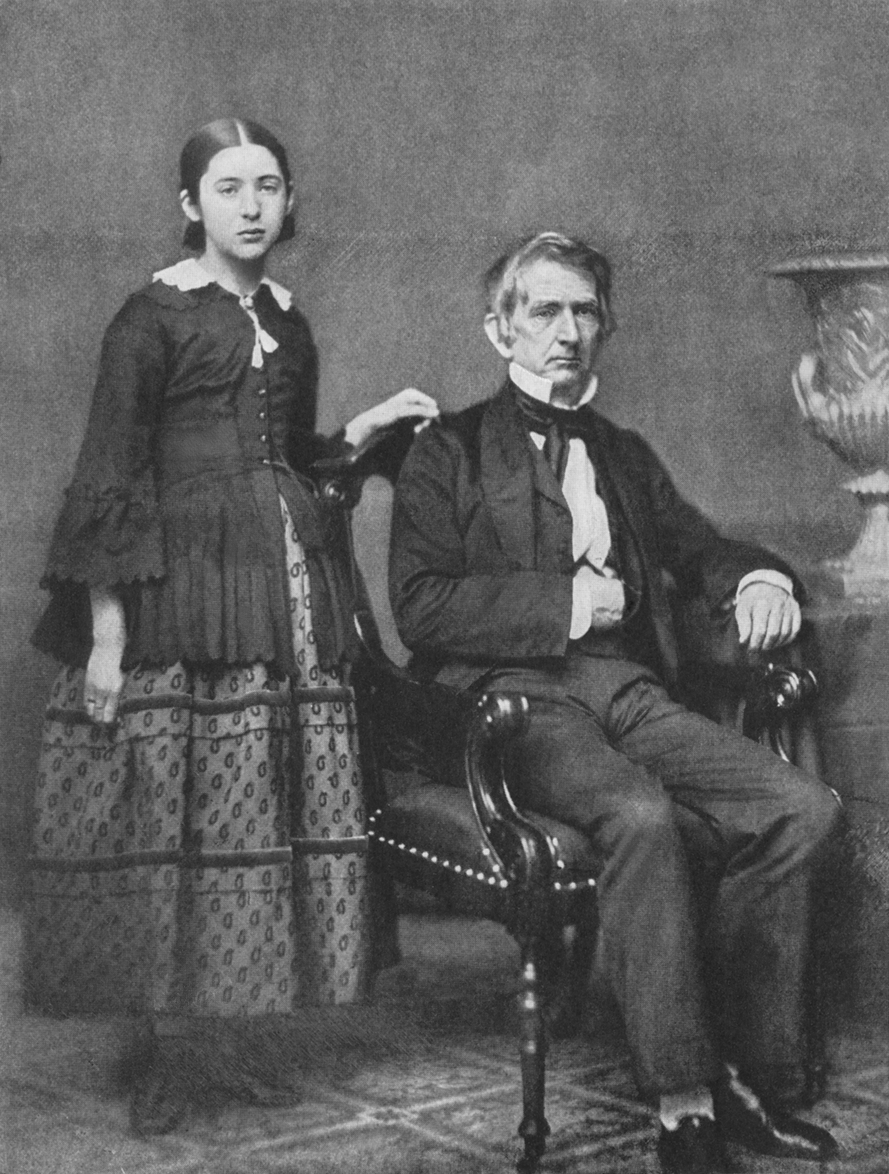 Black-and-white photographic portrait of William H. Seward and his daughter Fanny. William sits with hand in shirt. Fanny stands with hand on back of his chair.